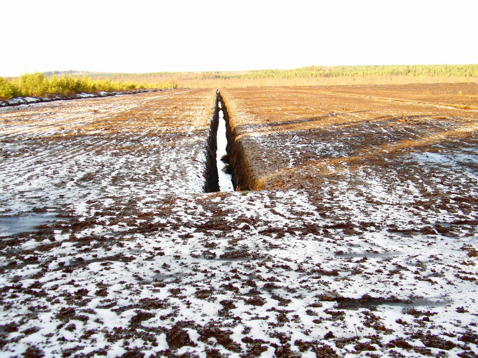 Ditch the peat swamp